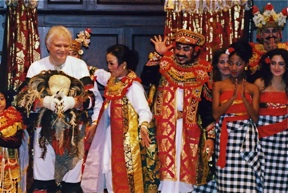 John Emigh (left) with mask after a performance of Topeng.